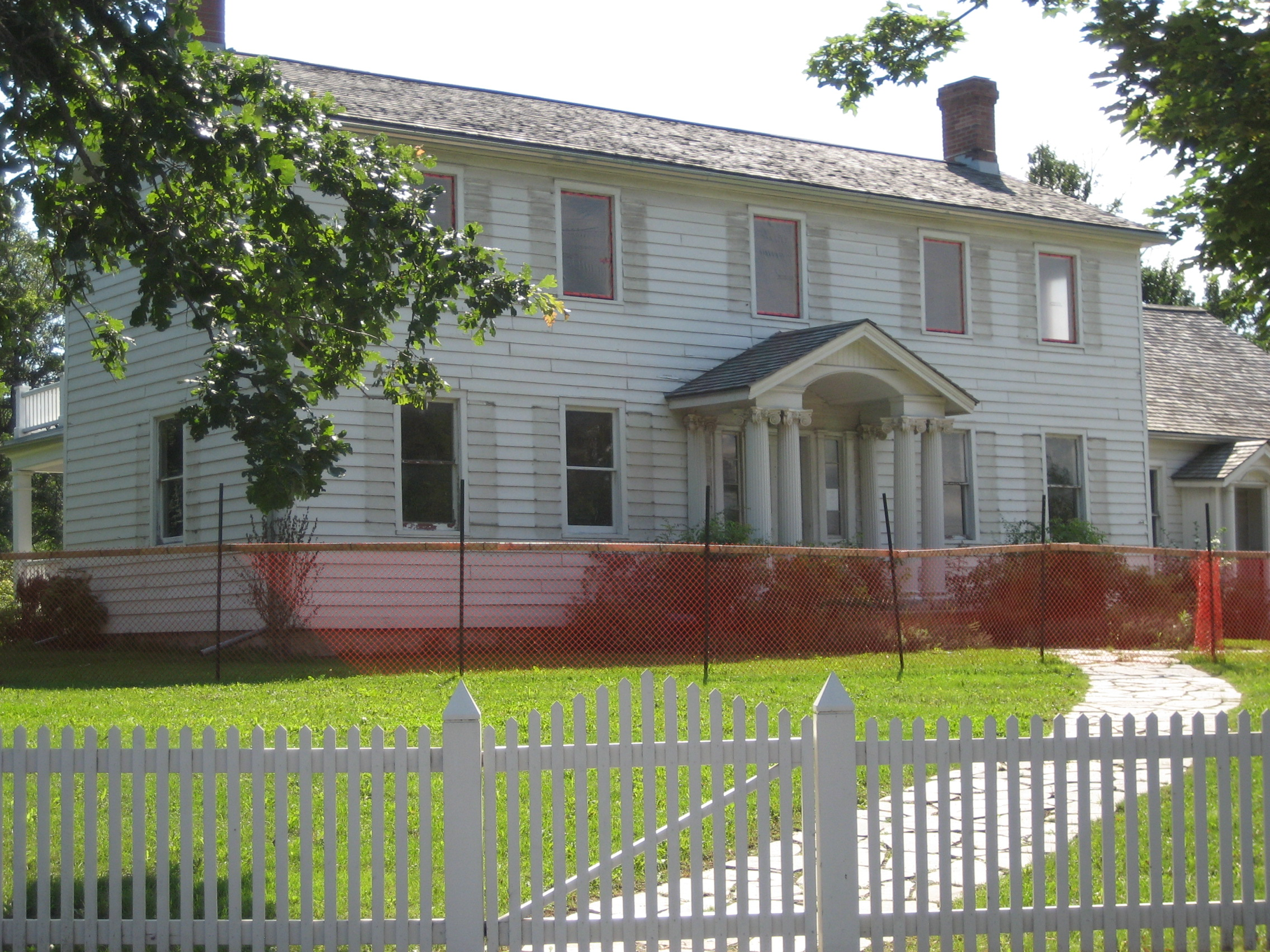 Nash-Jackson House, built in 1818, Stoney Creek, Hamilton, Canada.